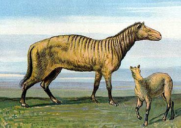 Crop of file in filename